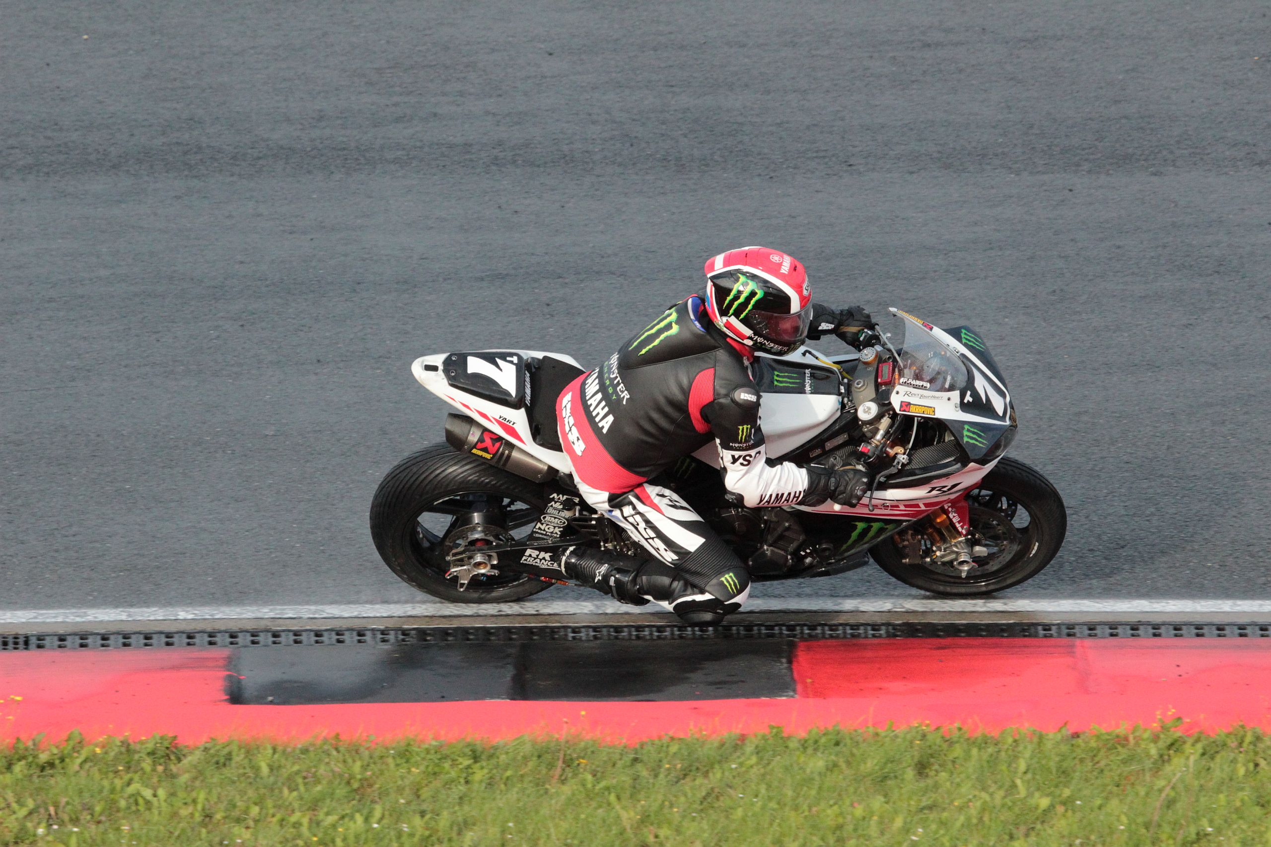 Igor Jerman at Oschersleben in 2014, FIM Endurance World Championship